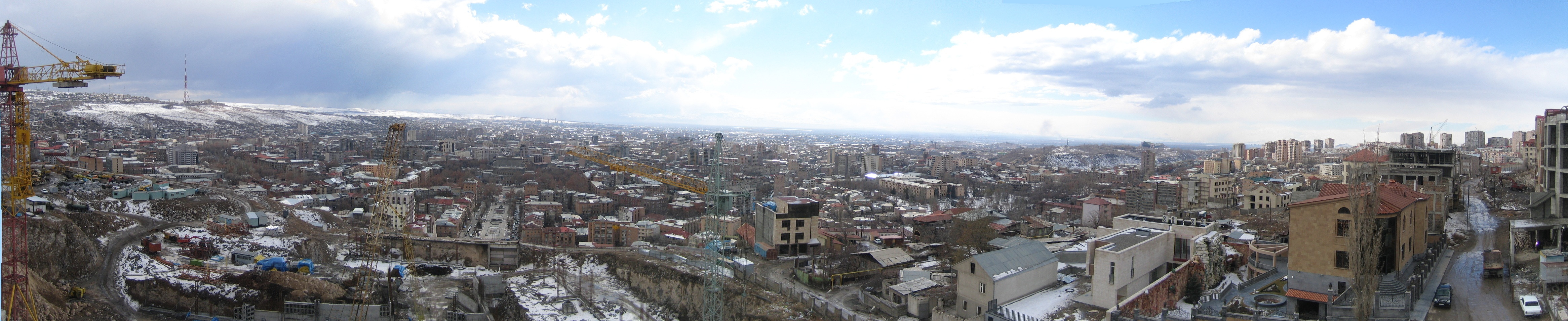 Panorama of Yerevan, Armenia, during Winter, as seen from the top of the Cascades at the WWII memorial monument. Panorama created with Hugin software.